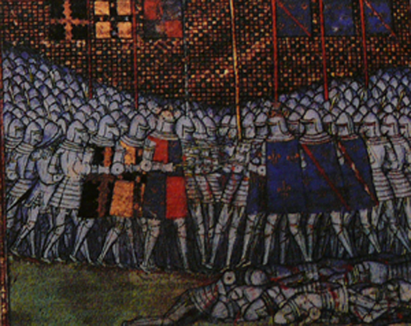 Battle of Crecy